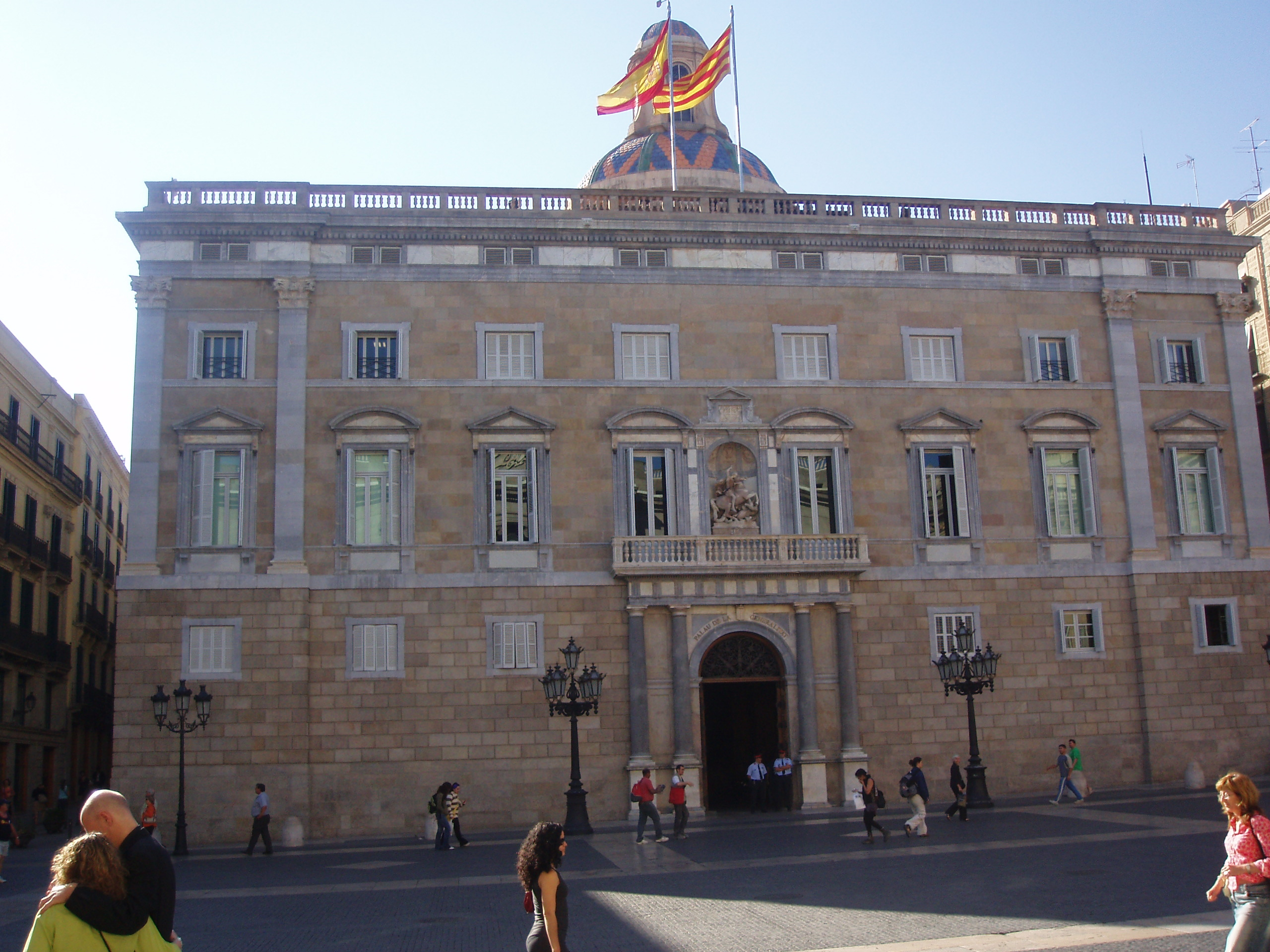 Palau de la Generalitat